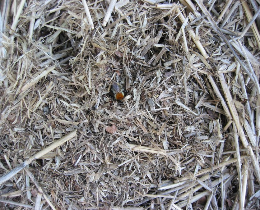 Self-made photo of a bumblebee nest (natural hive) in the summer.